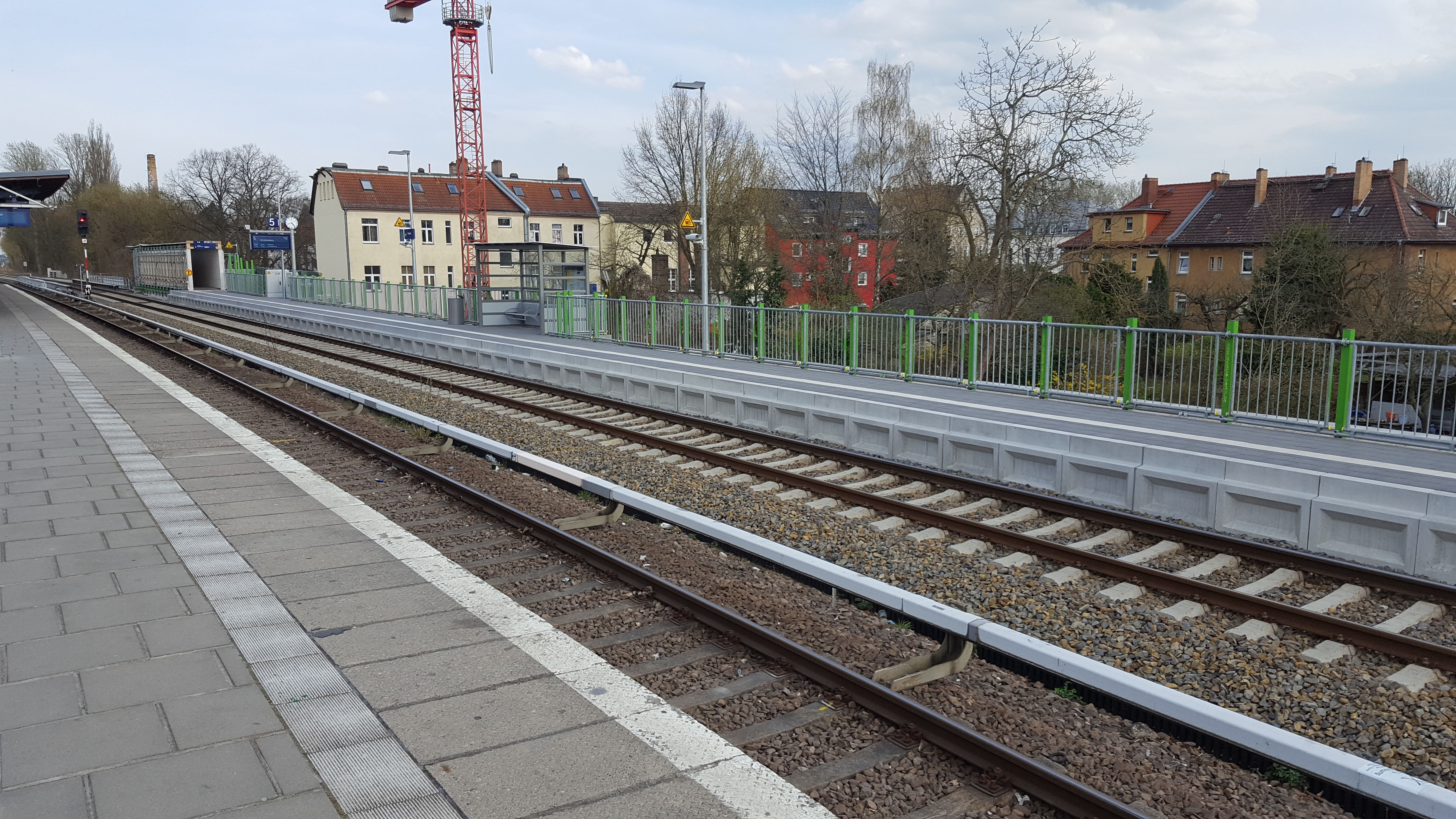 Newly built platform for the regional railway traffic at the station Berlin-Mahlsdorf.